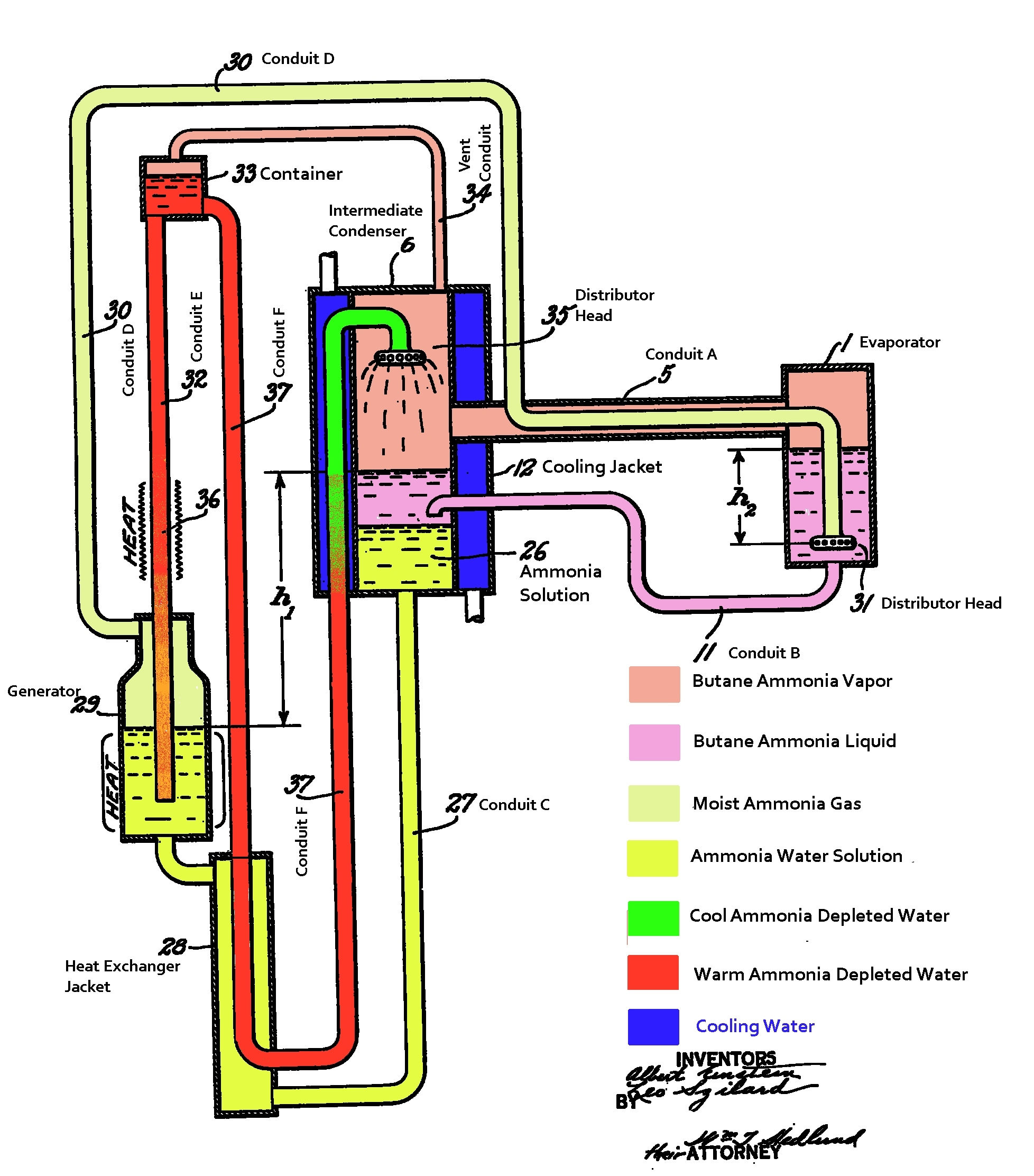 Clarified and annotated version of original Einstein Refrigerator drawing with colors showing phases.